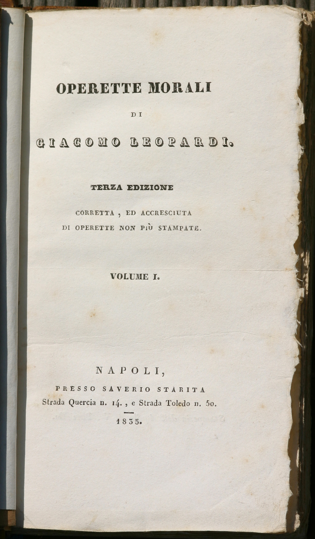 Cropped version of File:Leopardi Opere Napoli 1835.jpg